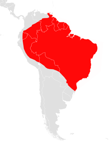 Distribution map of Artibeus obscurus